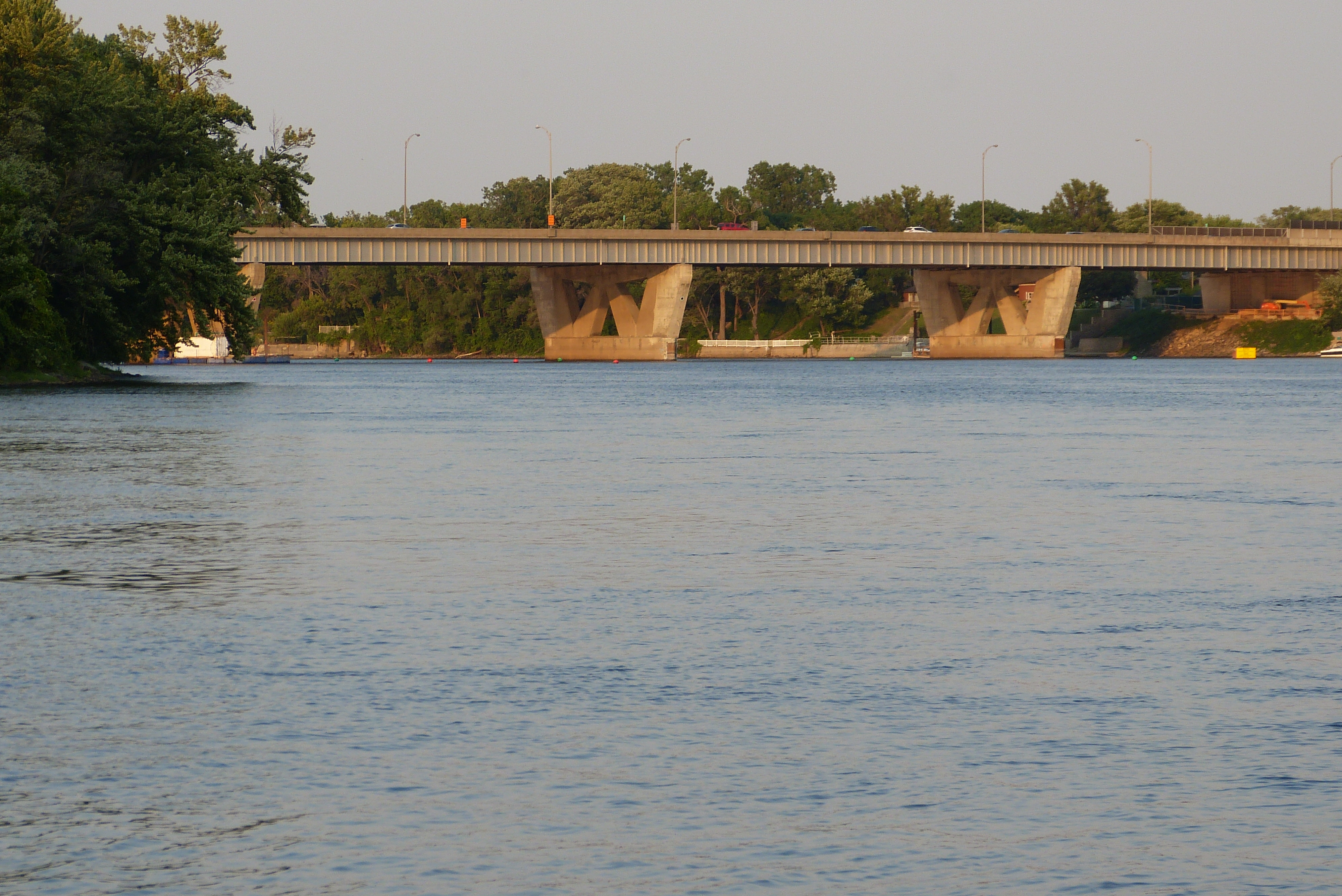 Médéric-Martin bridge linking autoroute 15 between Laval and Montreal.